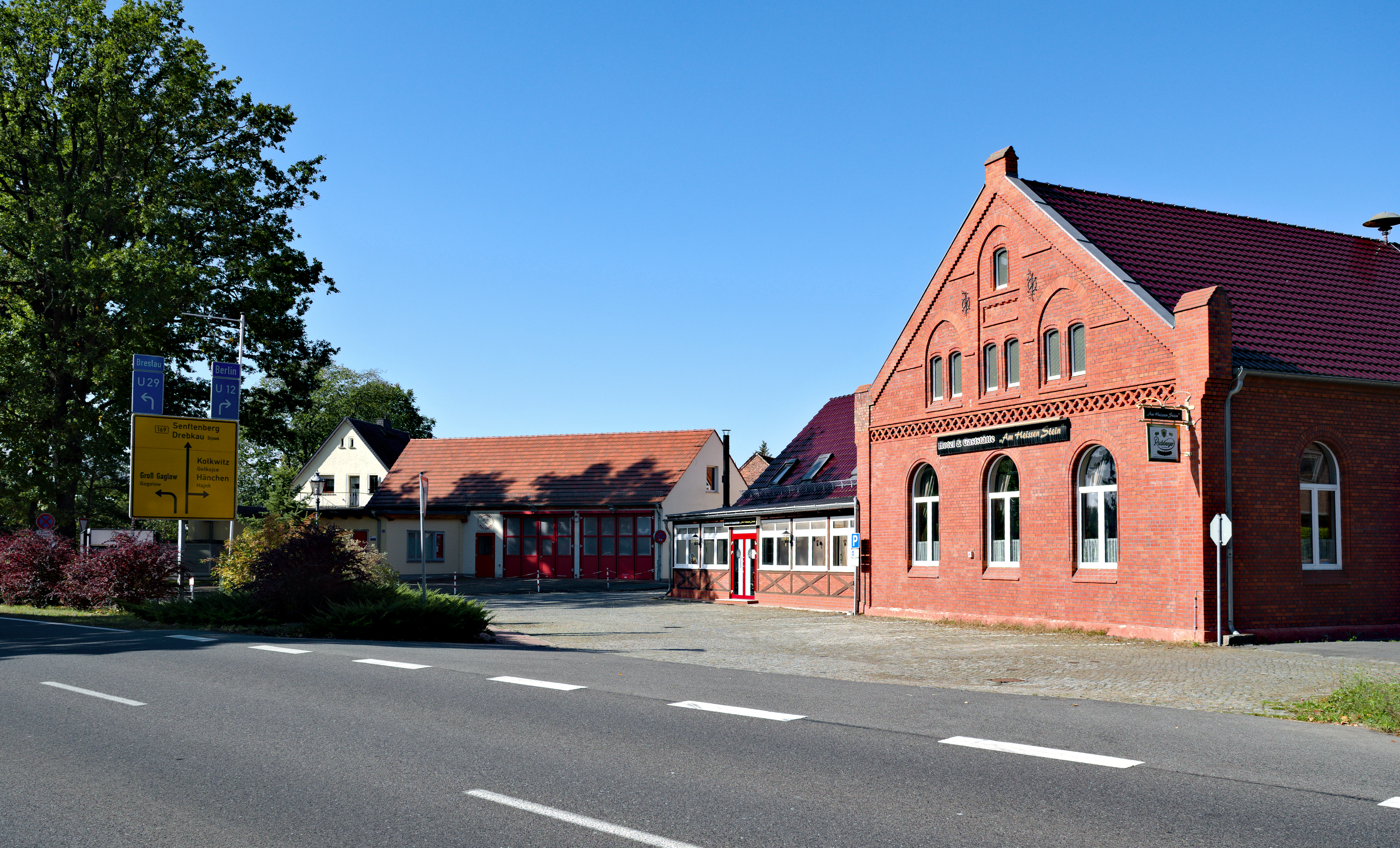 Drebkauer Straße (Bundesstraße 169) at the village center of Klein Gaglow. The two building shown here are the fire station (left) and restaurant "Am Heissen Stein" respectively.